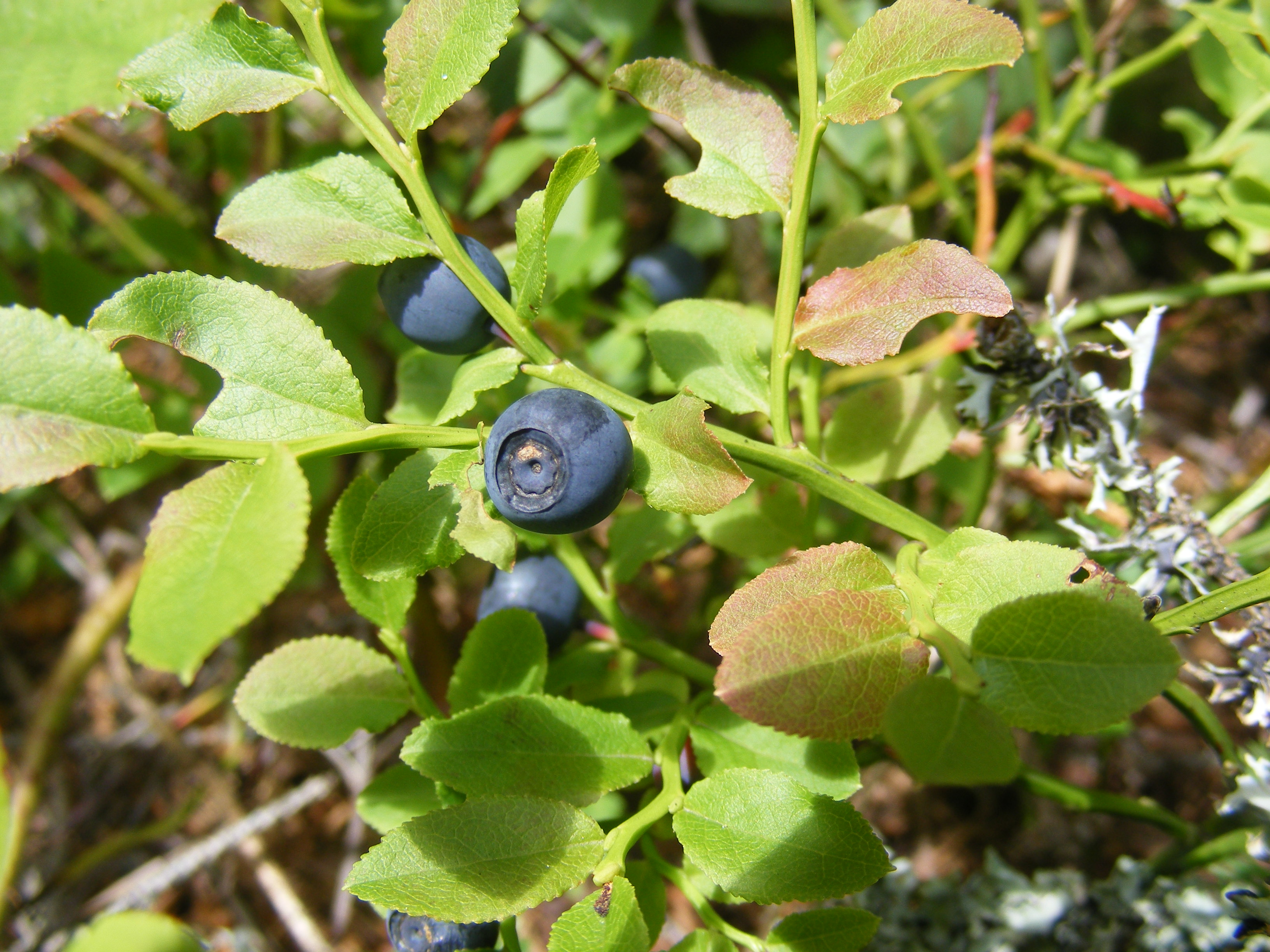 Bilberrys